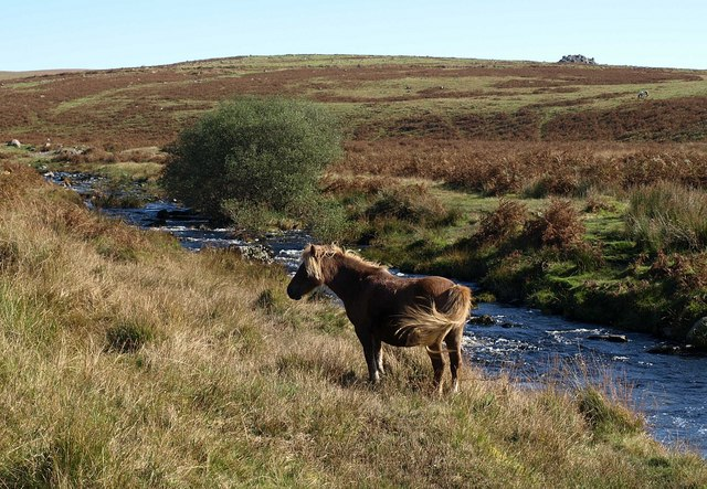 Pony by the Plym. A little downstream from the scene in 1531038. On the right horizon is 1529755